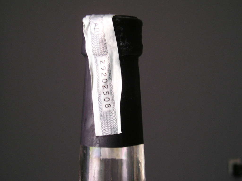 Excise stamp on a bottle with alcohol